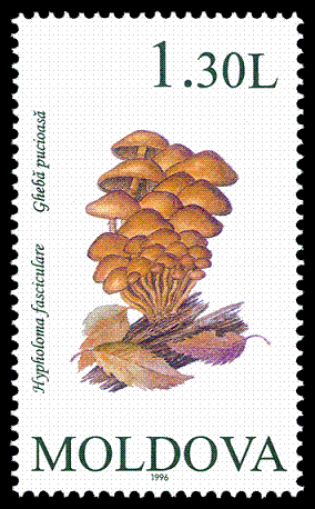 Hypholoma fasciculare depicted on a stamp of Moldova